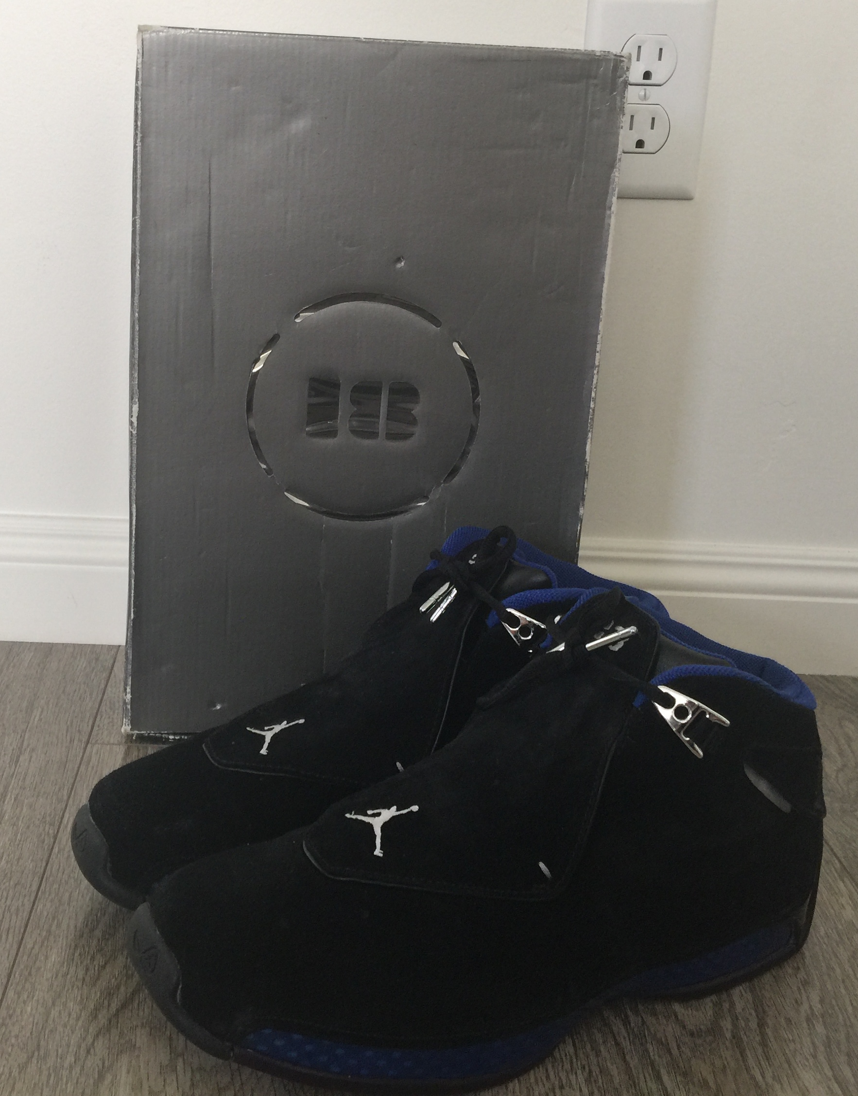 Air Jordan XVIII, (Wizards Away Colorway)